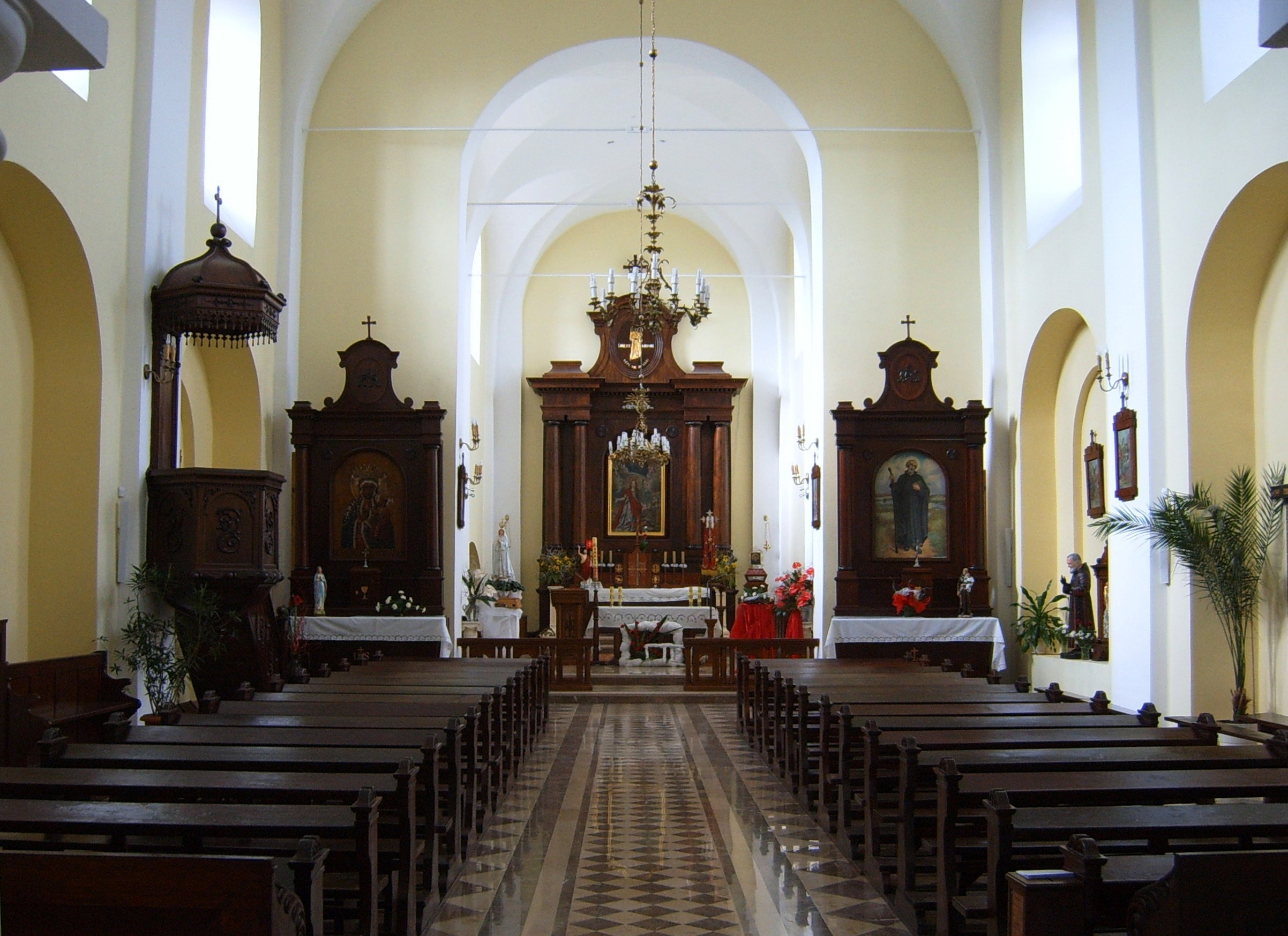 Saint Catherine church (inside) in The Old Town in Zamość